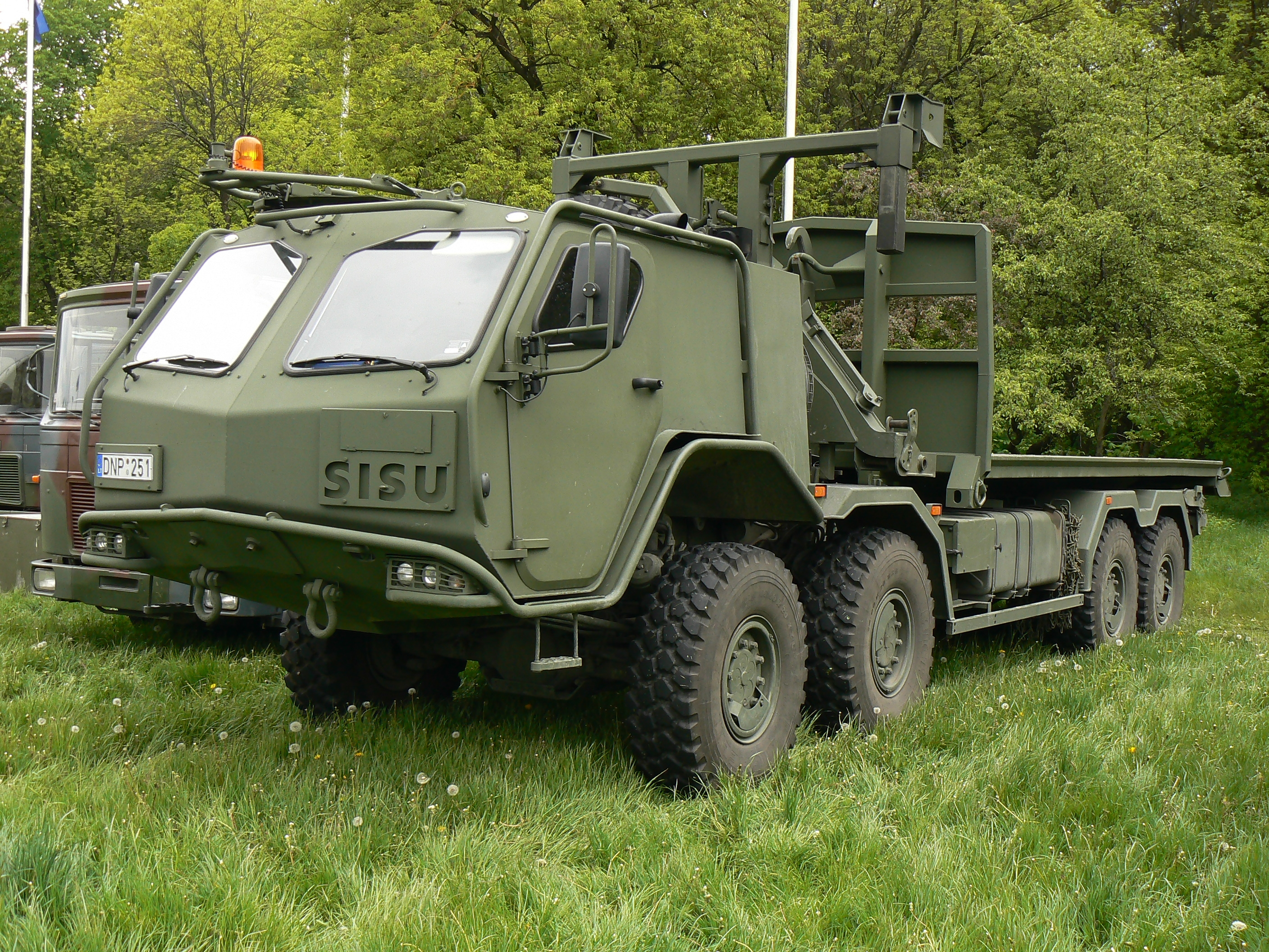 Lithuanian Armed Forces Sisu E13TP 8×8 truck. 445 HP, max. speed 110 km/h, payload 20 tons.